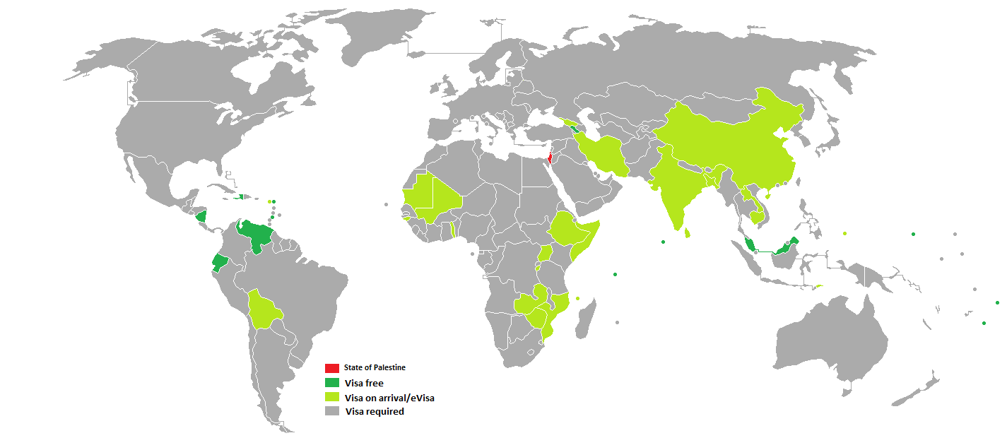 Visa requirements for Palestinian citizens 1.1